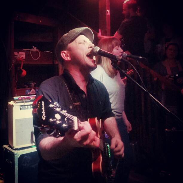 Joey and Kelly Kneiser of the awesome @glossaryTN #latergram #HolidayHangout